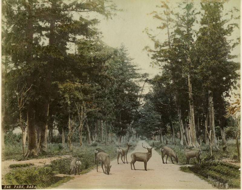 Adolfo Farsari (1841-1898) - "F48 - Park, Nara".